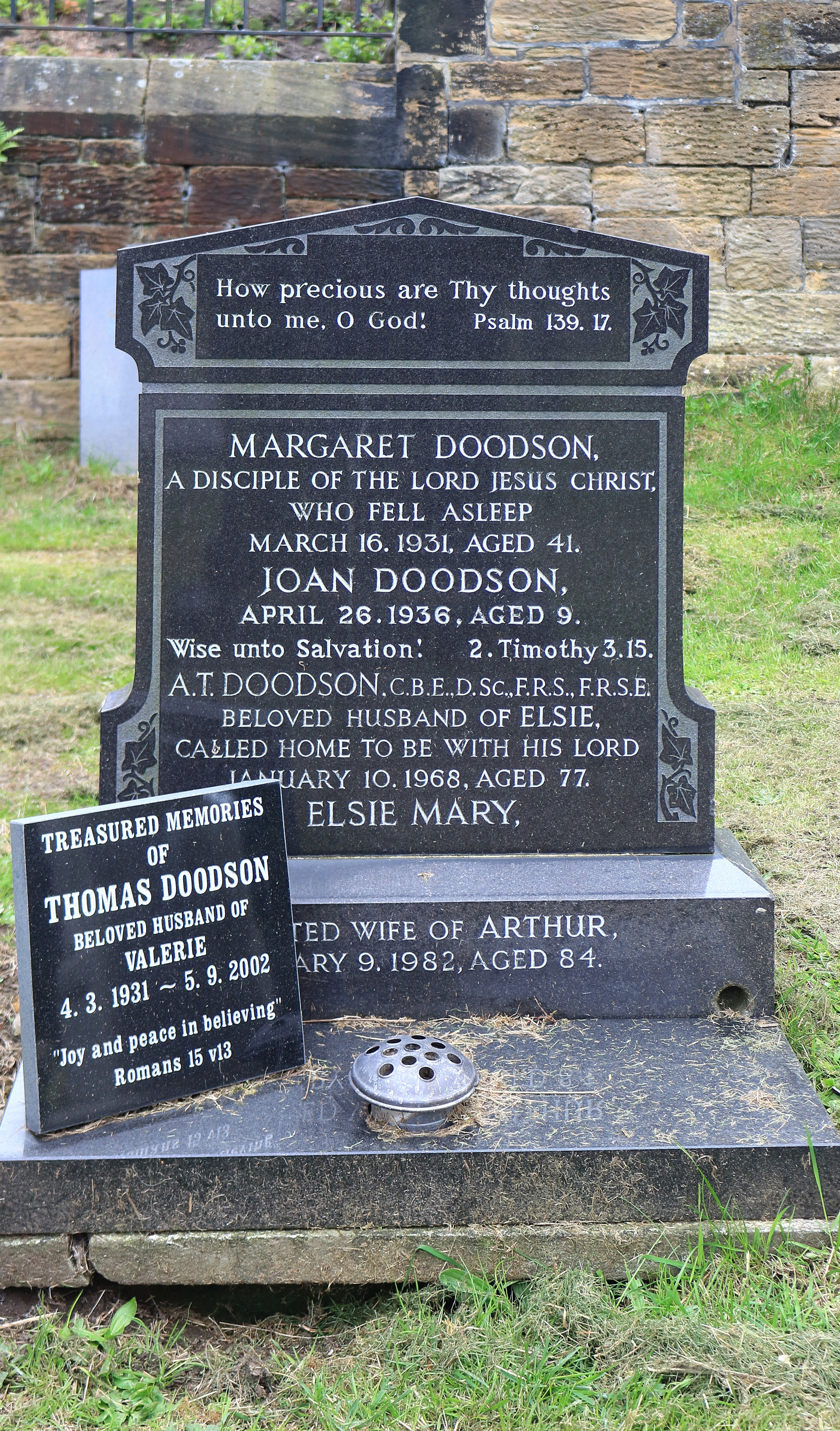 Family grave of Arthur Thomas Doodson, CBE, DSc, FRS, FRSE, noted oceanographer who predicted the optimum date for the D-Day landings of 1943. (Born 31 March 1890 in Salfrd, died 10 January 1968 in Birkenhead)